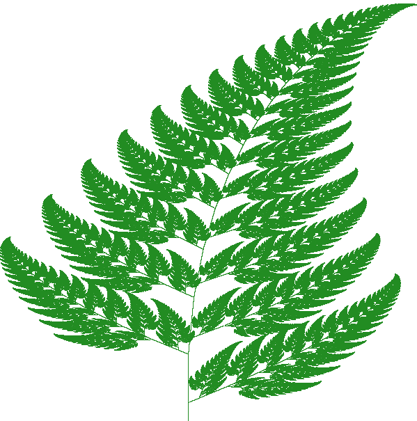 Barnsley Fern as drawn on canvas by a program in Processing 3.4.